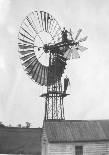 "Titt" Wind Engine at Hundon